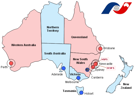 SUMMARY: Map of National Space Society chapters in Australia (image courtesy NSS) AUTHOR: National Space Society, registered as a nonprofit 501(c)3 educational organization 1620 I (Eye) Street NW, Suite 615, Washington, DC 20006 Tel: (202) 429-1600 -- FAX: (202) 463-8497 -- Direct questions about membership matters to: Copyright © 1998-2006, National Space Society URL